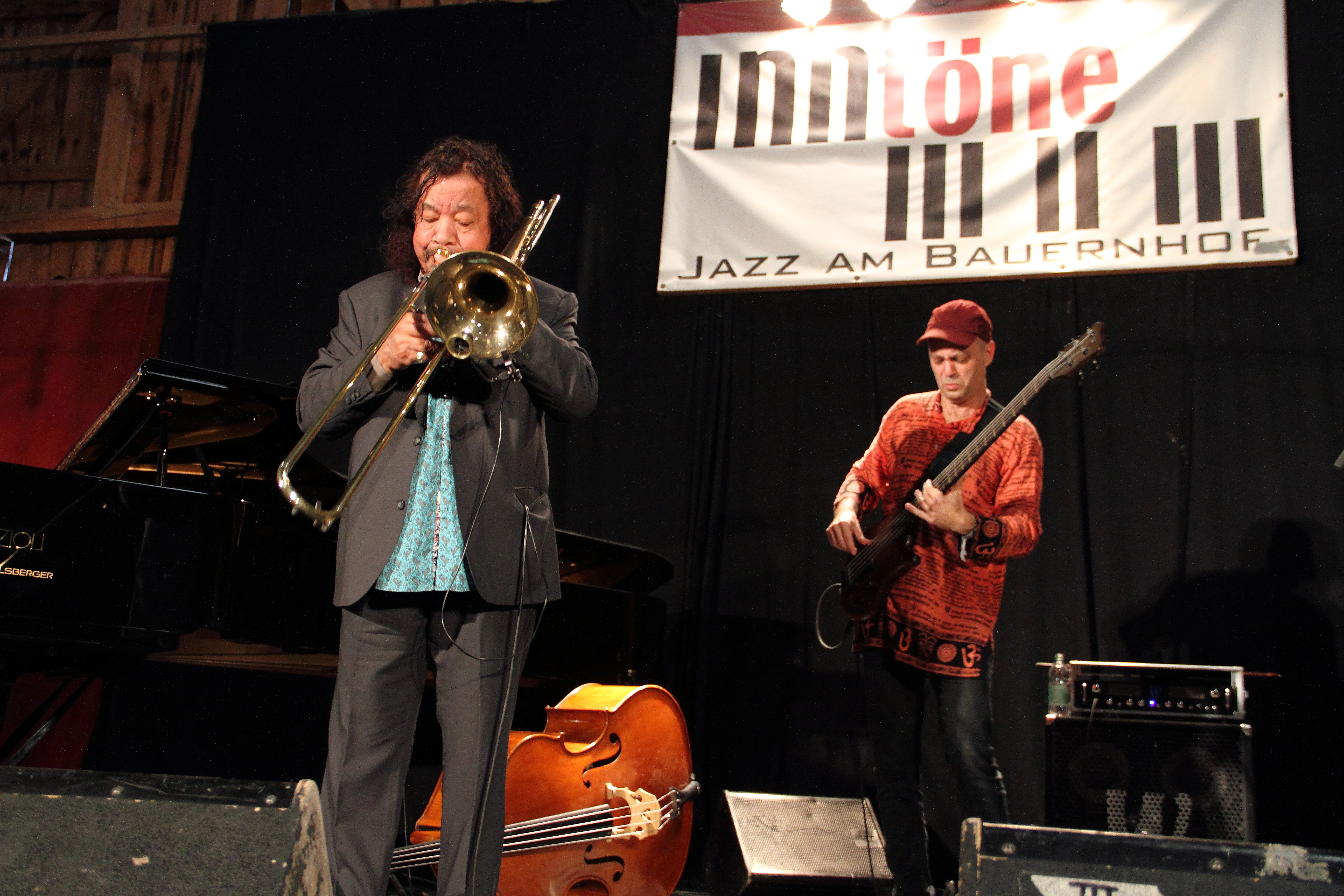 Raul de Souza and his Next Generation Band at INNtöne Jazzfestival 2018.